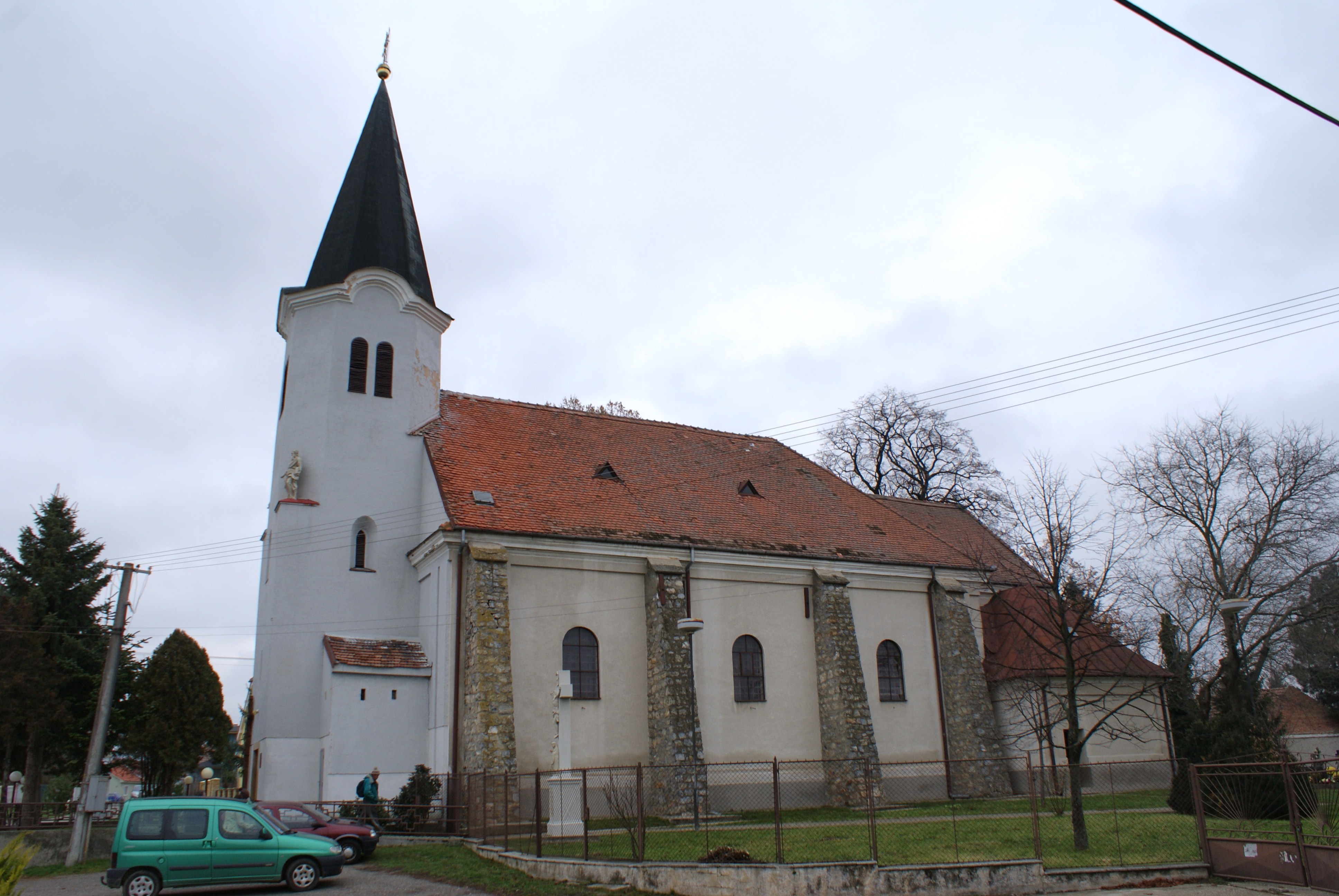 Vištuk, a village in Pezinok district, Slovakia, church.